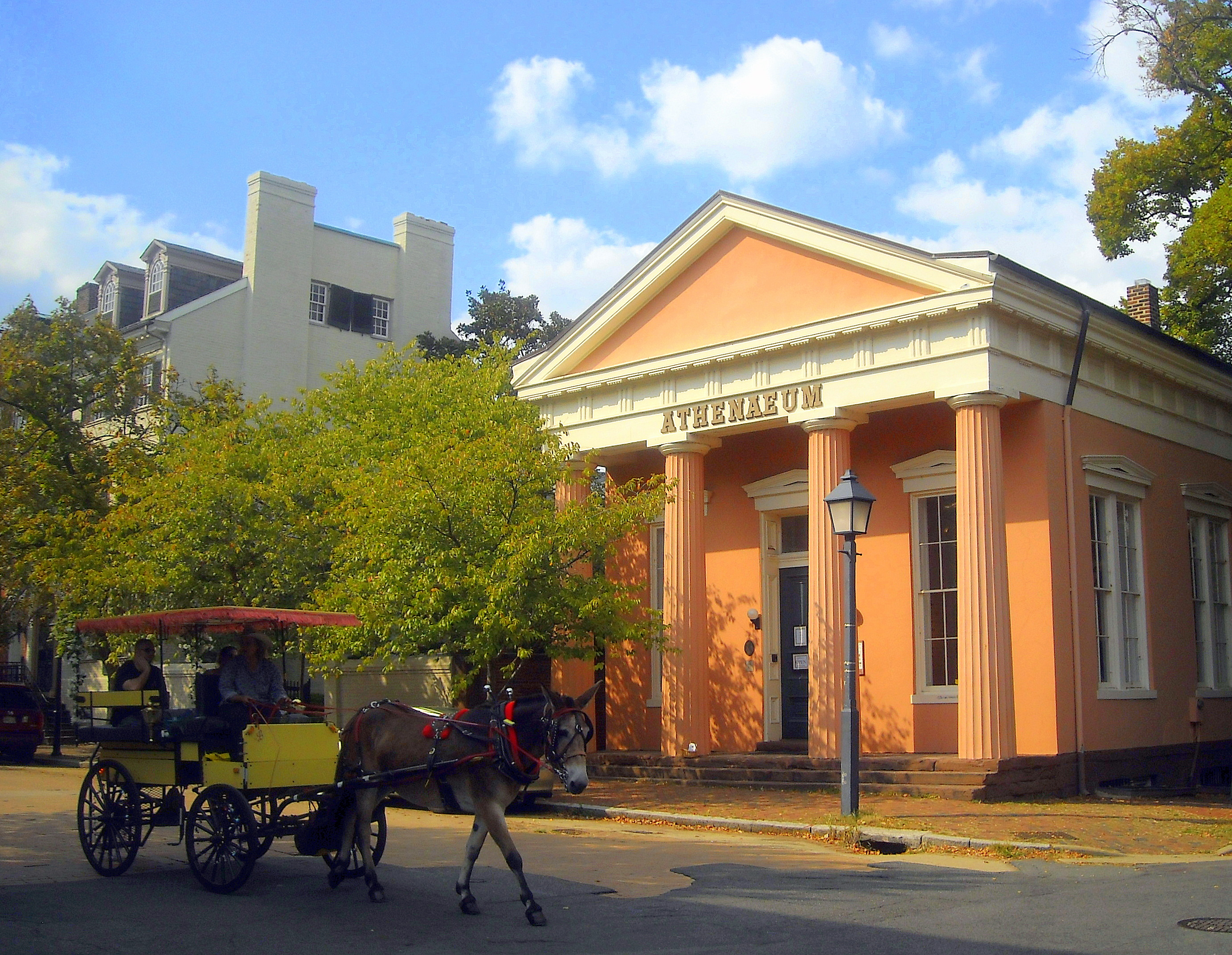 Old Dominion Bank Building (now known as Athenaeum, an art gallery operated by the Northern Virginia Fine Arts Association) at 201 Prince Street in Old Town Alexandria, Virginia. The building is listed on the National Register of Historic Places and is a contributing property to the Alexandria Historic District, a National Historic Landmark.